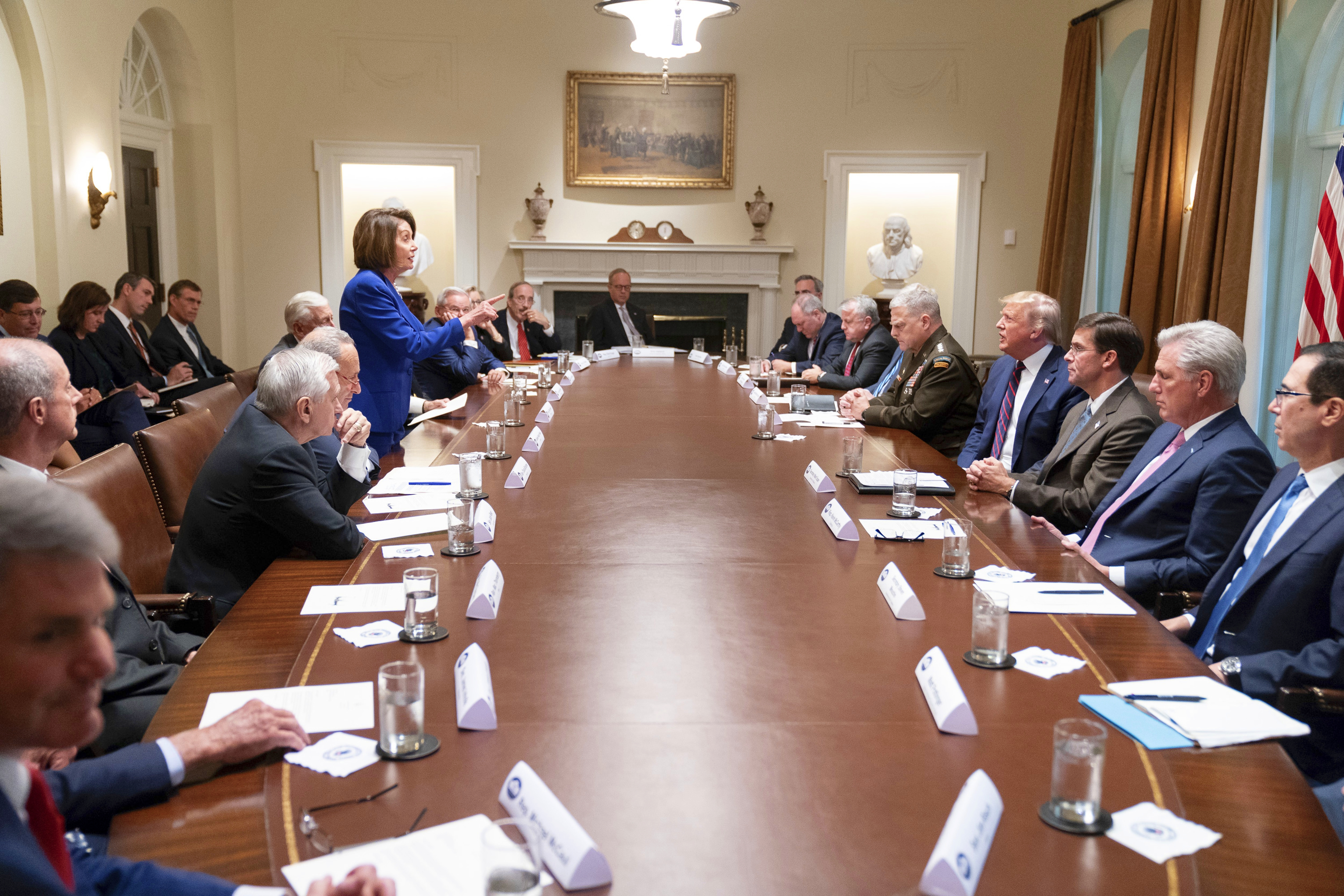 President Donald J. Trump meets with House Speaker Nancy Pelosi and Congressional leadership Wednesday, Oct. 16, 2019, in the Cabinet Room of the White House.